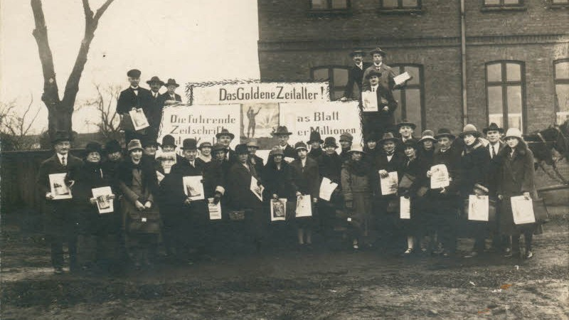 Jehovas Witnesses in Güstrow (1922)